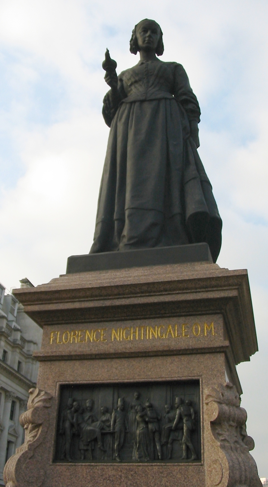 London